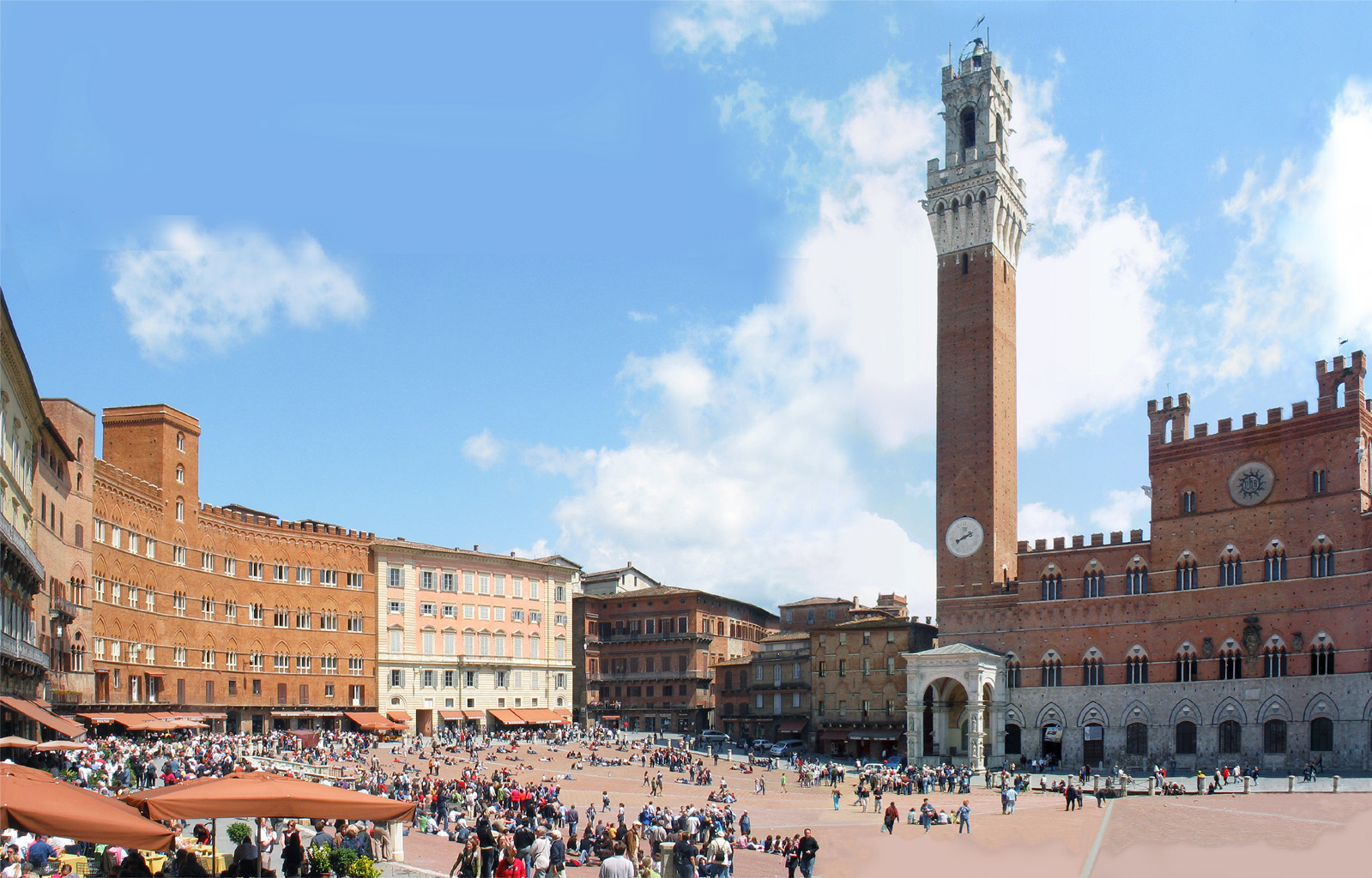 Piazza del Campo with Palazzo Pubblico and Torre del Mangia, town of Siena, Tuscany/Italy